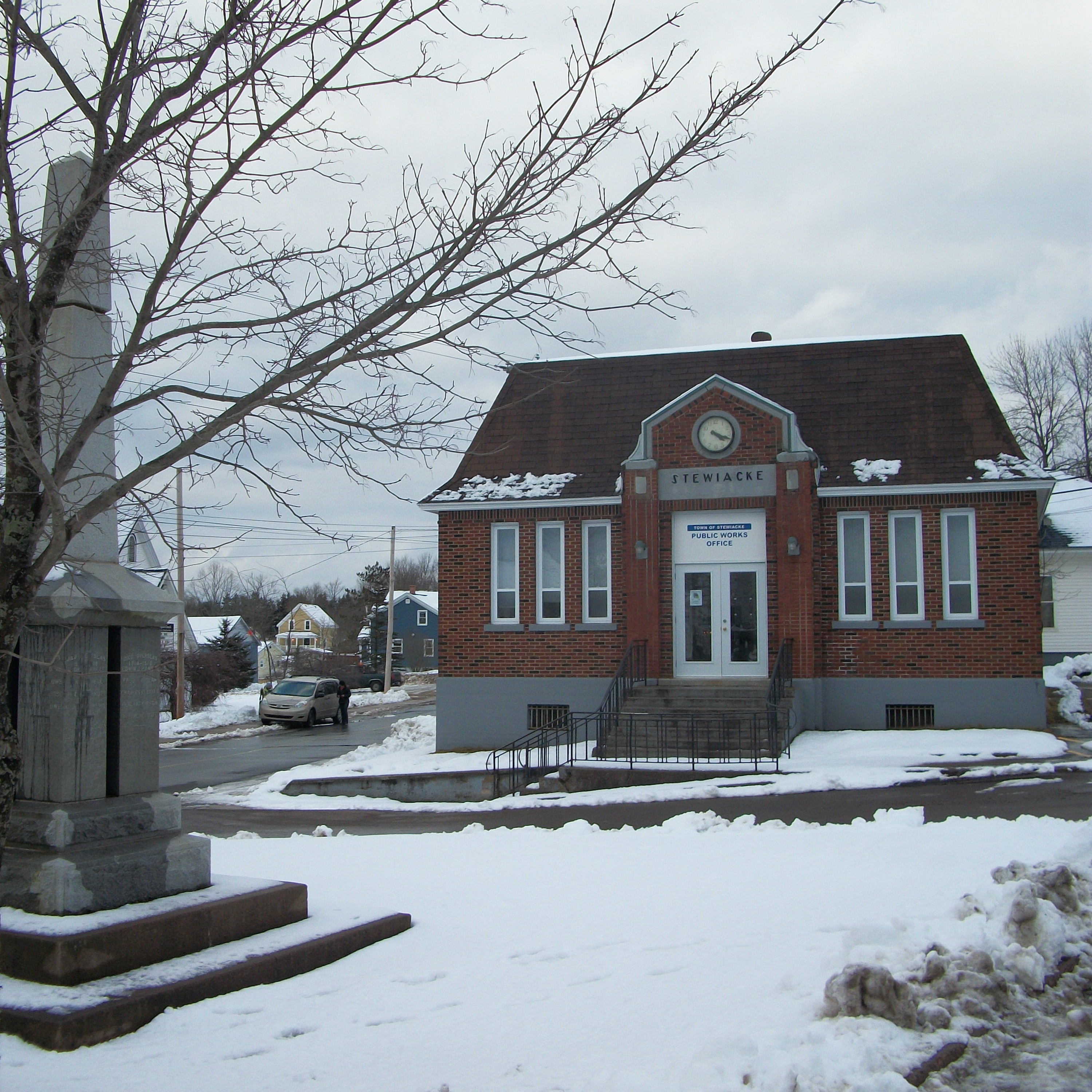 Town Hall and cenotaph, Stewiacke, Nova Scotia